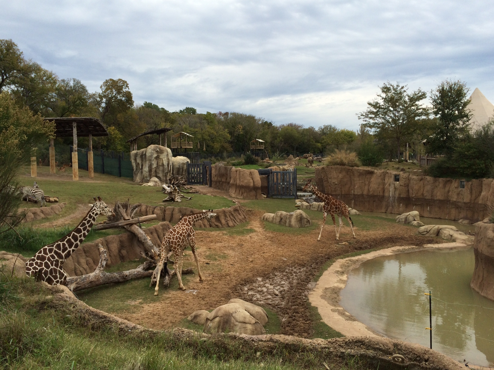 Giraffes, Zebras, Impala, and Elephants in Dallas Zoo's Giants of the Savanna exhibit